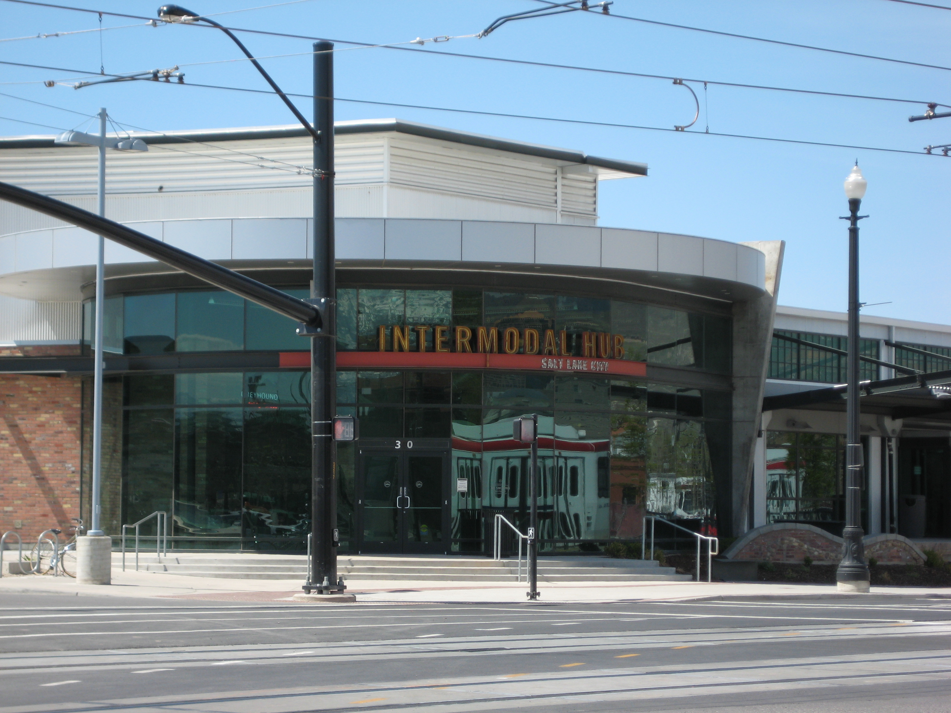 Salt Lake City Intermodal Hub